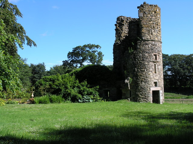 Asloun Castle The remains of a 16th century Z-plan castle, now forming part of the gardens of a later house.